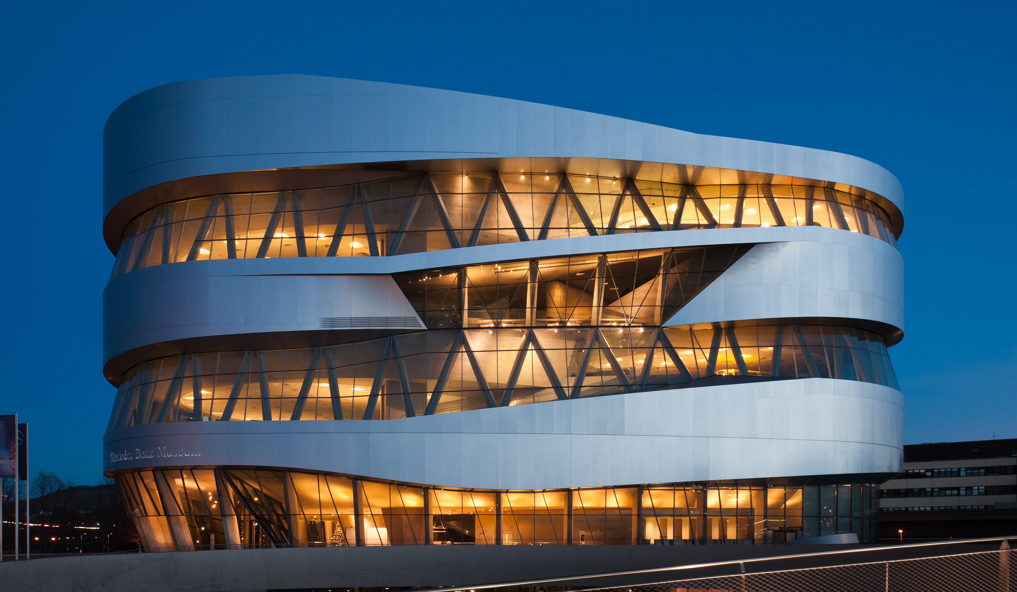 Mercedes-Benz Museum in Stuttgart, Germany, during blue hour.